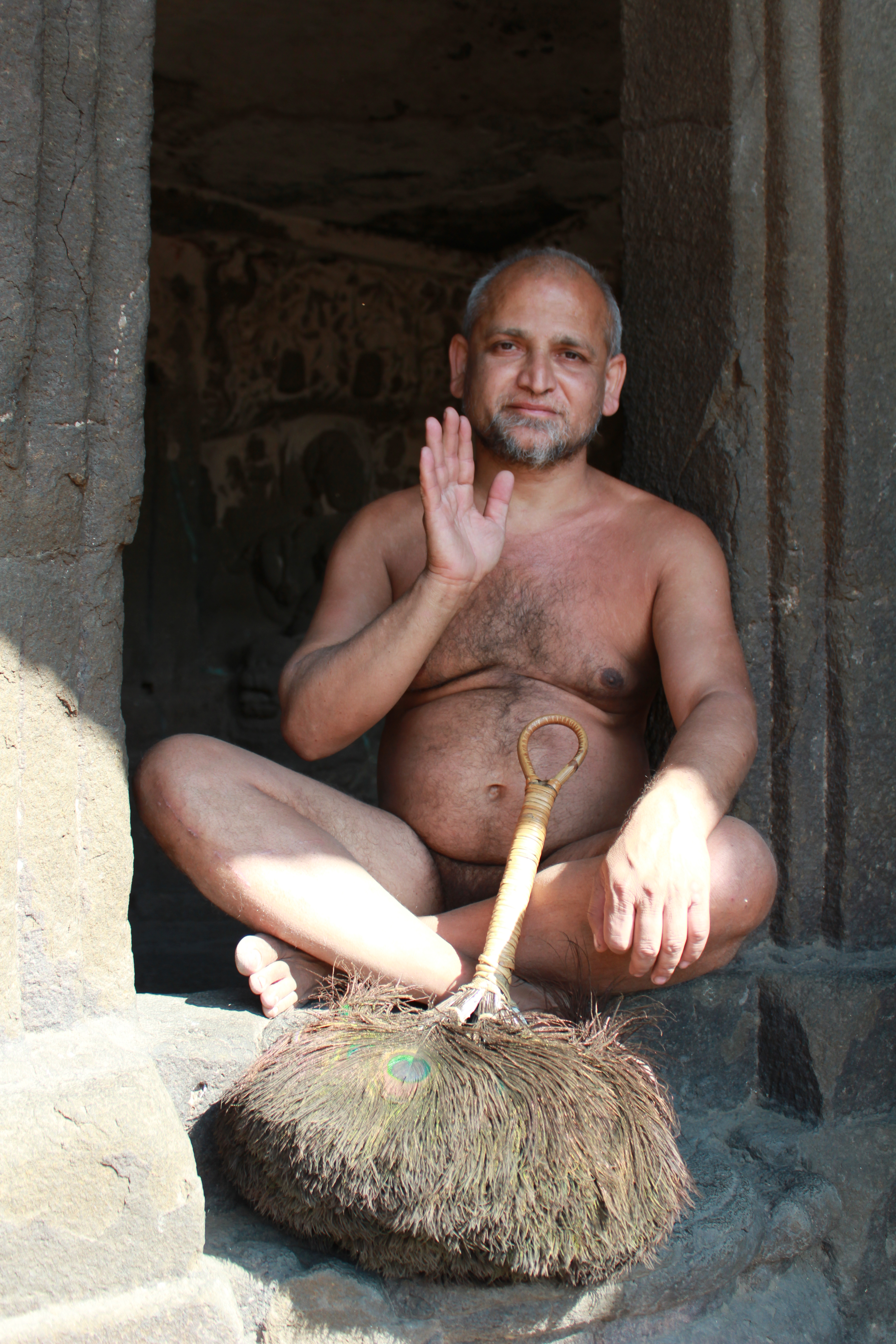 Ellora, cave 33, Digambar Jain guru Same man as 4 years earlier, ?? Ellora is an archaeological site in the Indian state of Maharashtra built by the Rashtrakuta dynasty. It is also known as Elapura (in the Rashtrakuta literature-Kannada). Well known for its monumental caves, Ellora is a World Heritage Site. Ellora represents the epitome of Indian rock-cut architecture. The 34 "caves" are actually structures excavated out of the vertical face of the Charanandri hills. Buddhist, Hindu and Jain rock-cut temples and viharas and mathas were built between the 5th century and 10th century. The 12 Buddhist (caves 1–12), 17 Hindu (caves 13–29) and 5 Jain (caves 30–34) caves, built in proximity, demonstrate the religious harmony prevalent during this period of Indian history. It is a protected monument under the Archaeological Survey of India. (source